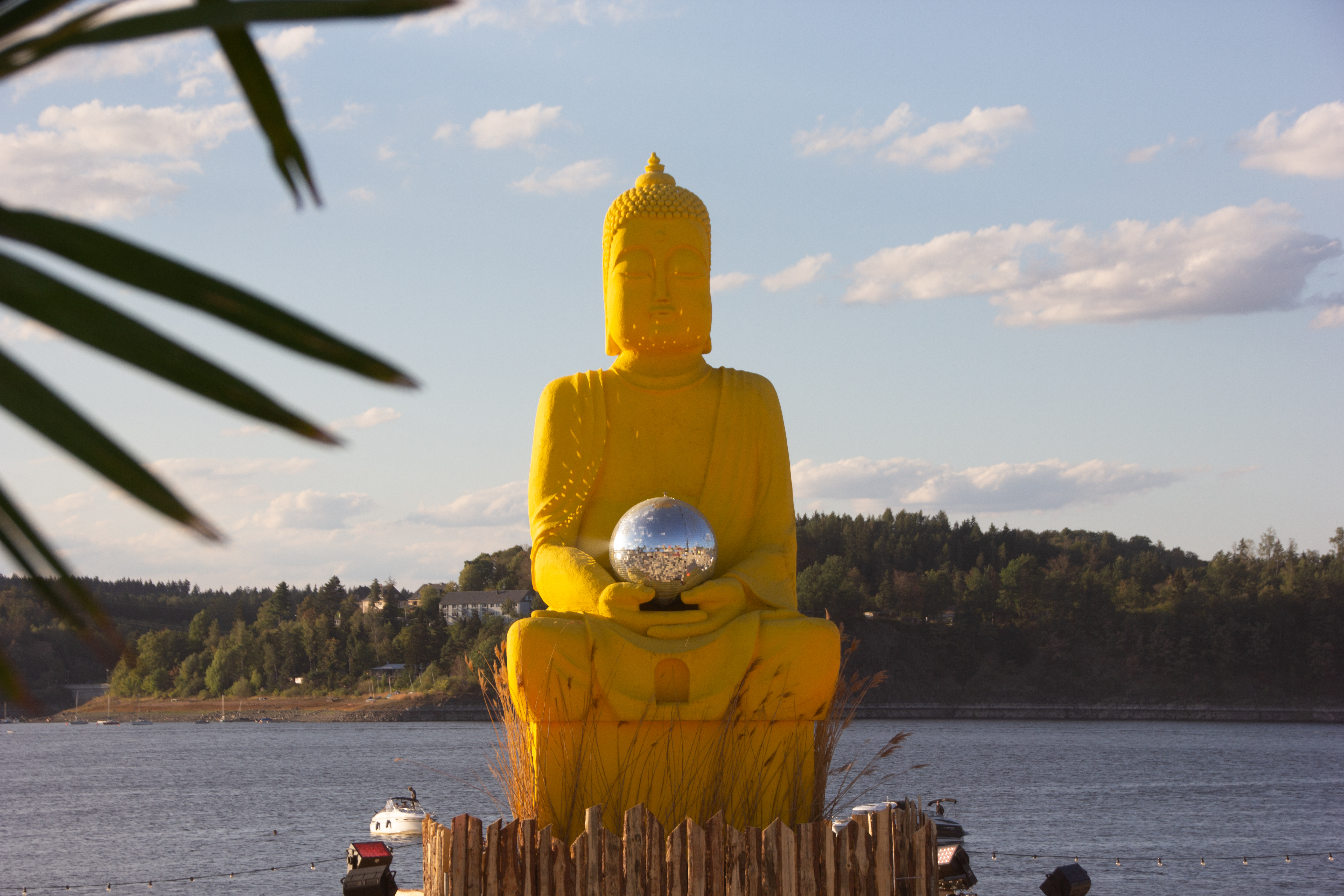 Buddha on Beach at SMS 2018